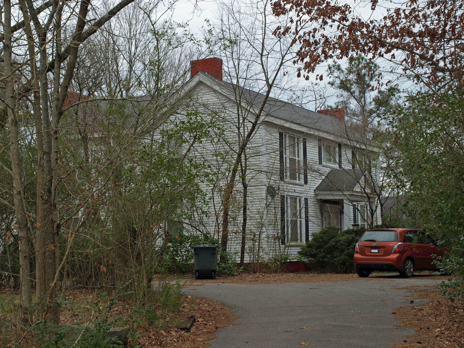 The Whitman-Cobb House in New Market, Alabama, listed on the National Register of Historic Places